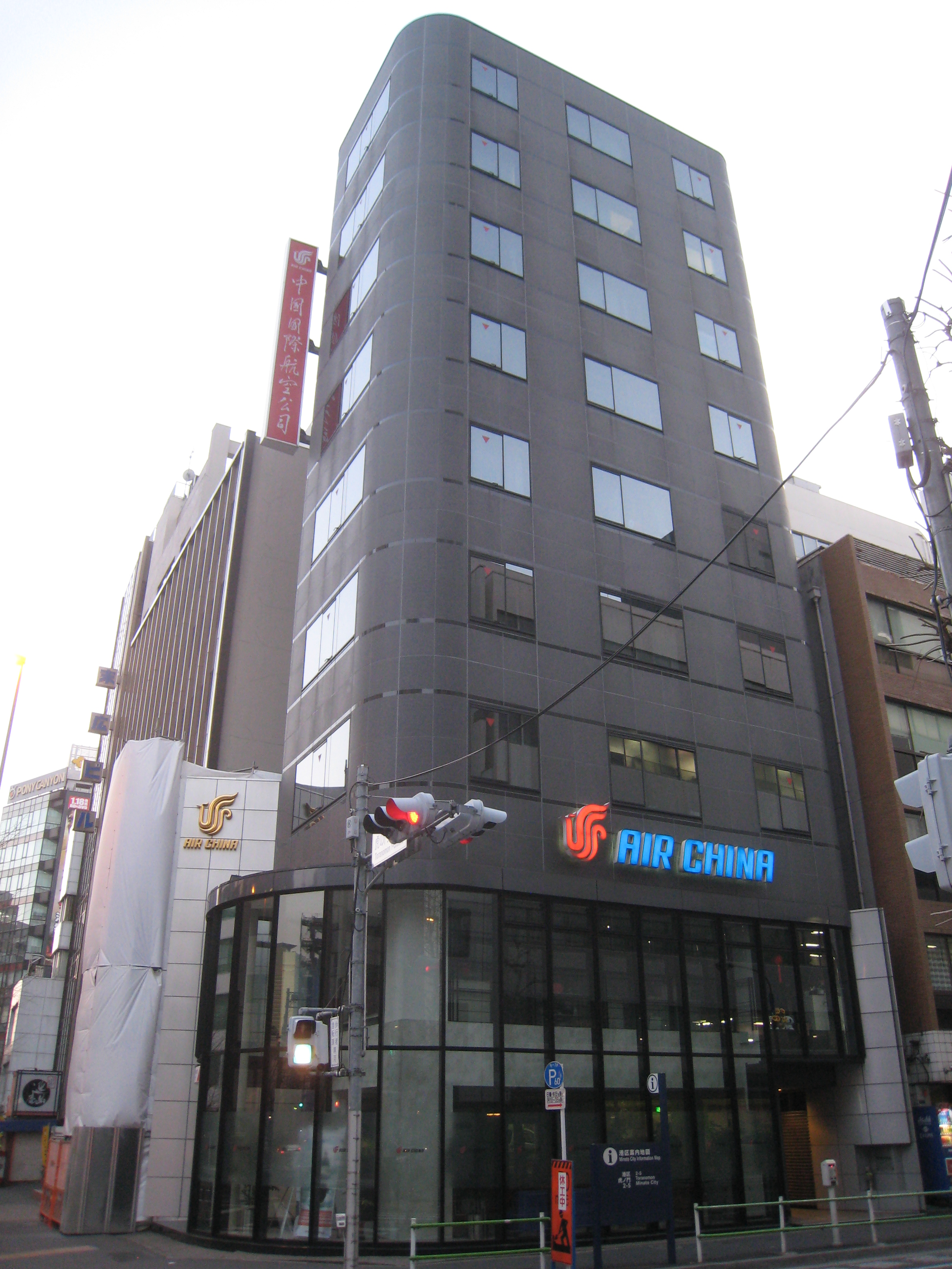 Air China Building in Tokyo, 2-5-2 Toranomon, Minato-ku, Tokyo 105-0001 Japan